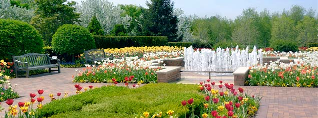 Chicago Botanic Garden Circle Garden